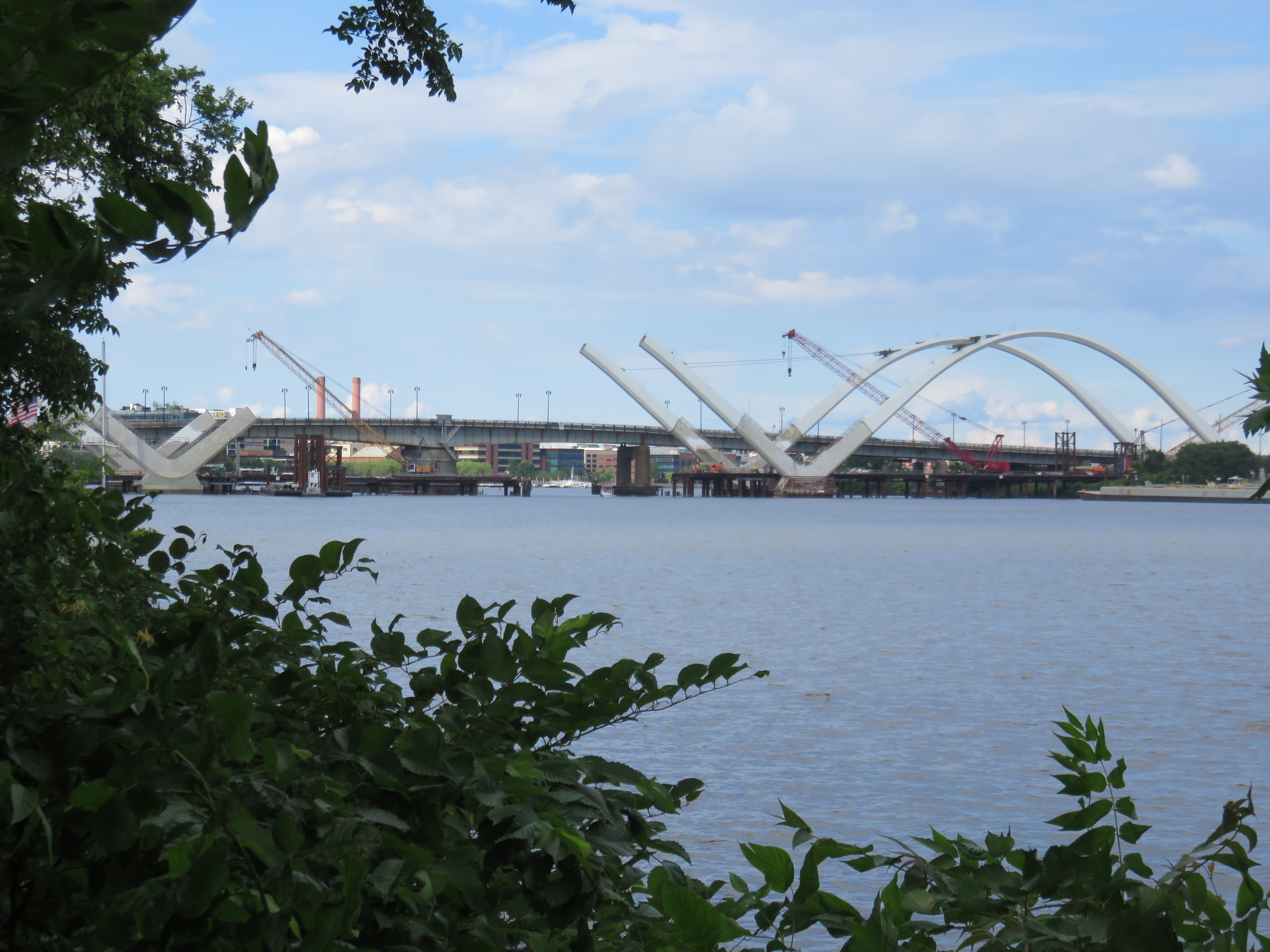 Construction of the new Frederick Douglass Memorial Bridge alongside the old bridge in Washington, D.C. in 2020